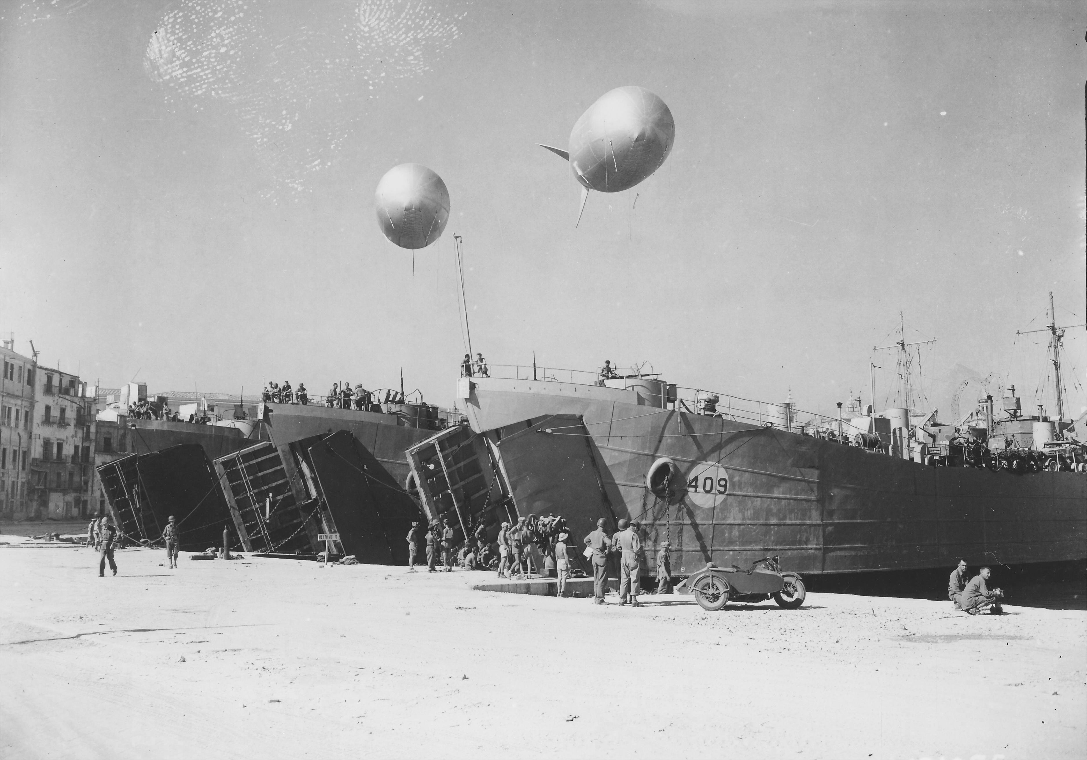 HM LST-409 with two unidentified LSTs, moored a Palermo, Sicily, Italy, 4 September 1943, probably preparing to load troops and equipment for the Salerno landings, scheduled for 9 September 1943. US National Archives photo # III-SC 181095, Box 181 a US Army Signal Corps. photo now in the collections of the US National Archives.